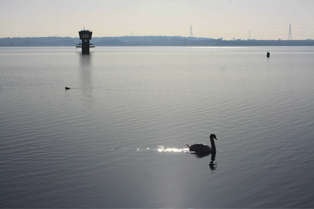 Water Tower at Grafham Water